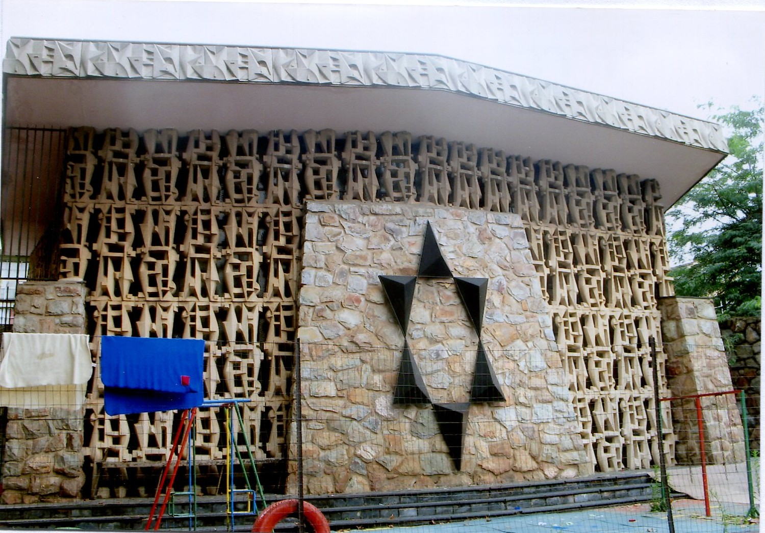 The Chassidim Shul is a synagogue in Yeoville , it was built in 1963. This is part of the works from the Johannesburg Heritage Foundation donated to the Joburgpedia Project which I'm a Wikipedian in Residence